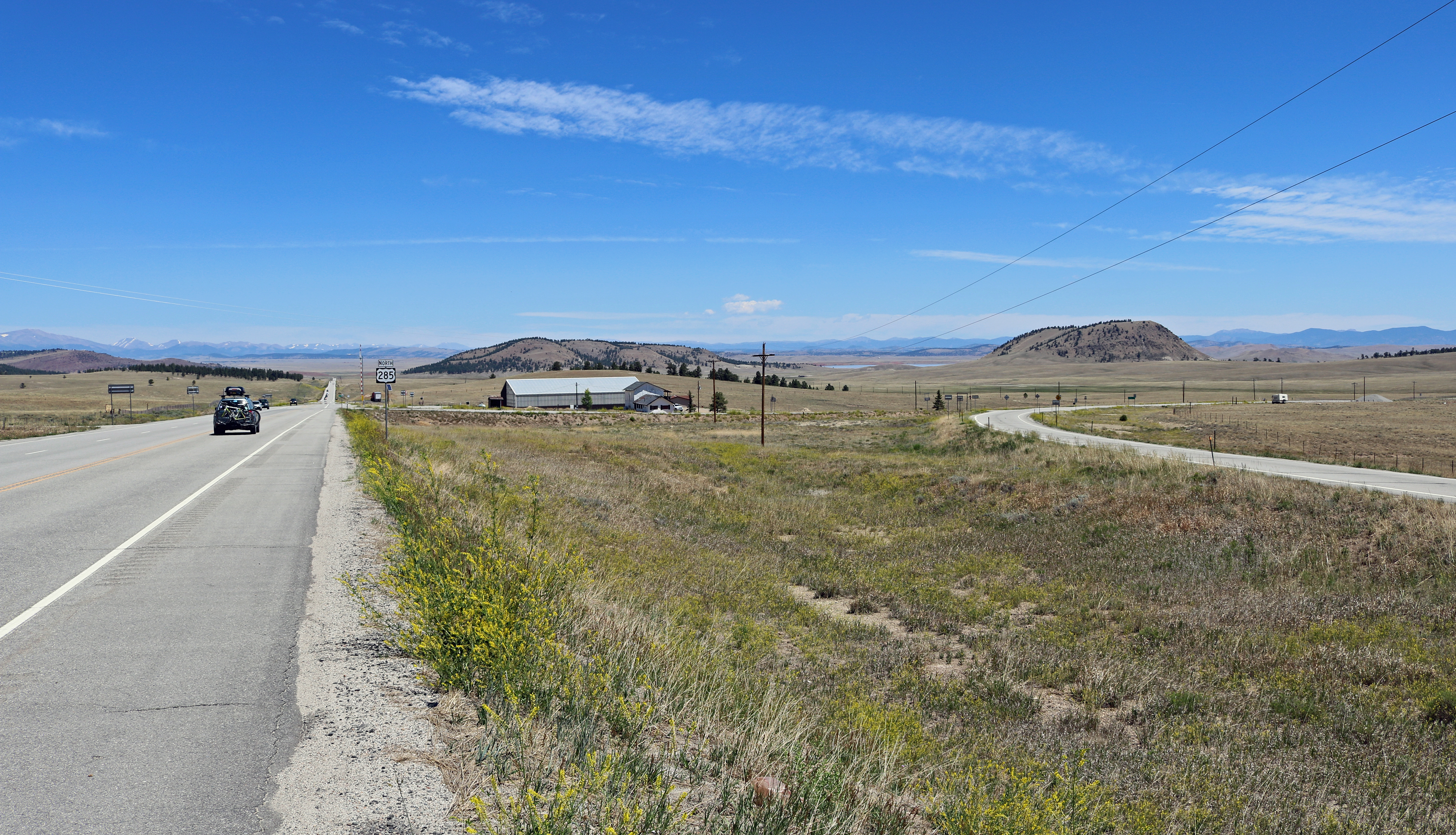 A view of Antero Junction, Colorado. The view is generally towards the north. U.S. Highway 285 is on the left, and U.S. Highway 24 is on the right. The two highways merge behind the camera to the south. Much of South Park is visible in the picture, and a small portion of Antero Reservoir is visible to the right of the center of the picture.